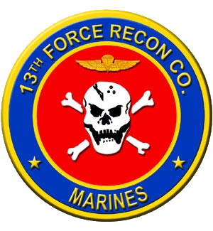 13th Force Reconnaissance Company seal.